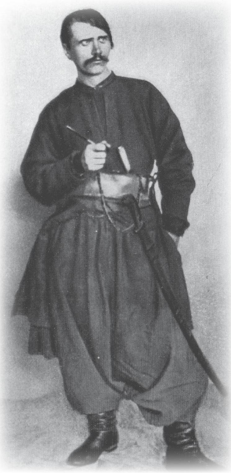 Young Dmytro Yavornytsky (Ukrainian historian and folklorist) in costume of Zaporozhian cossack. Ca. 1885-1890.